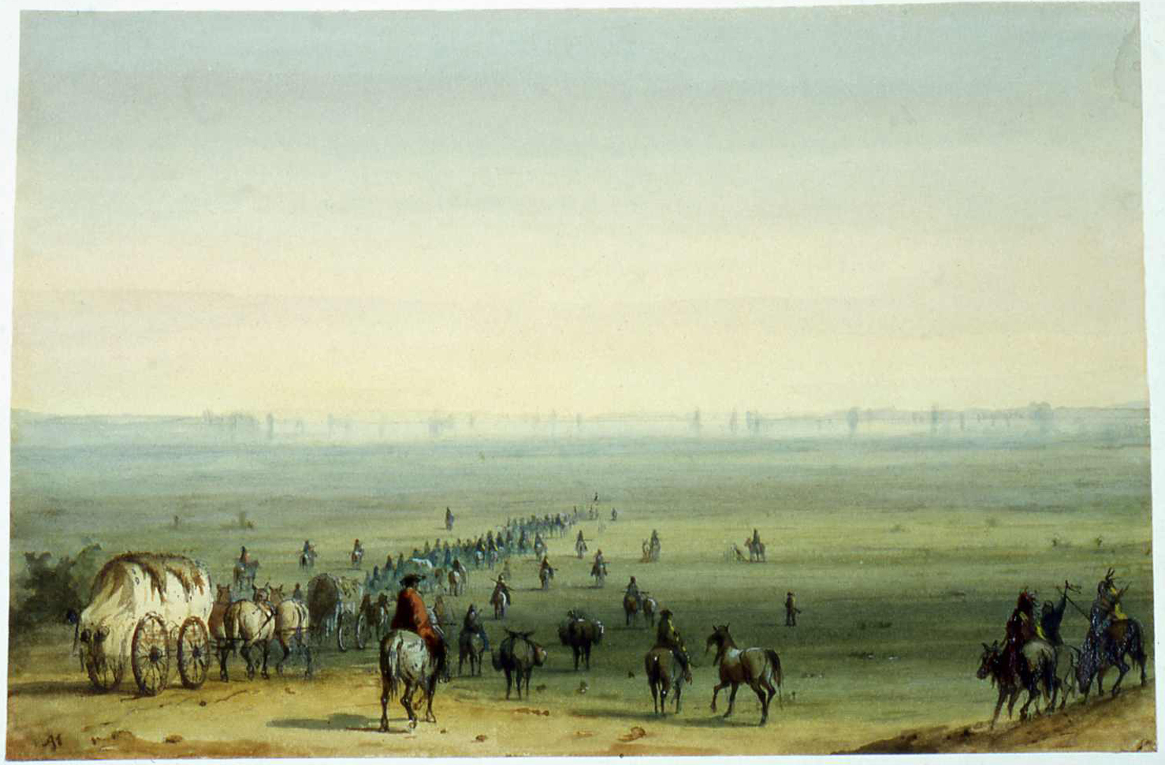 The men were tormented by thirst several times while crossing the prairie. It was not unusual in such a situation to see a delightful lake looming on the horizon. When the horses did not "quicken their motion, or snort," Miller knew that he was seeing a mirage. Although Miller is noted for the first pictures of the Rocky Mountain fur trade, he also painted some of the freshest and most candid prairie scenes to come out of the overland trail.